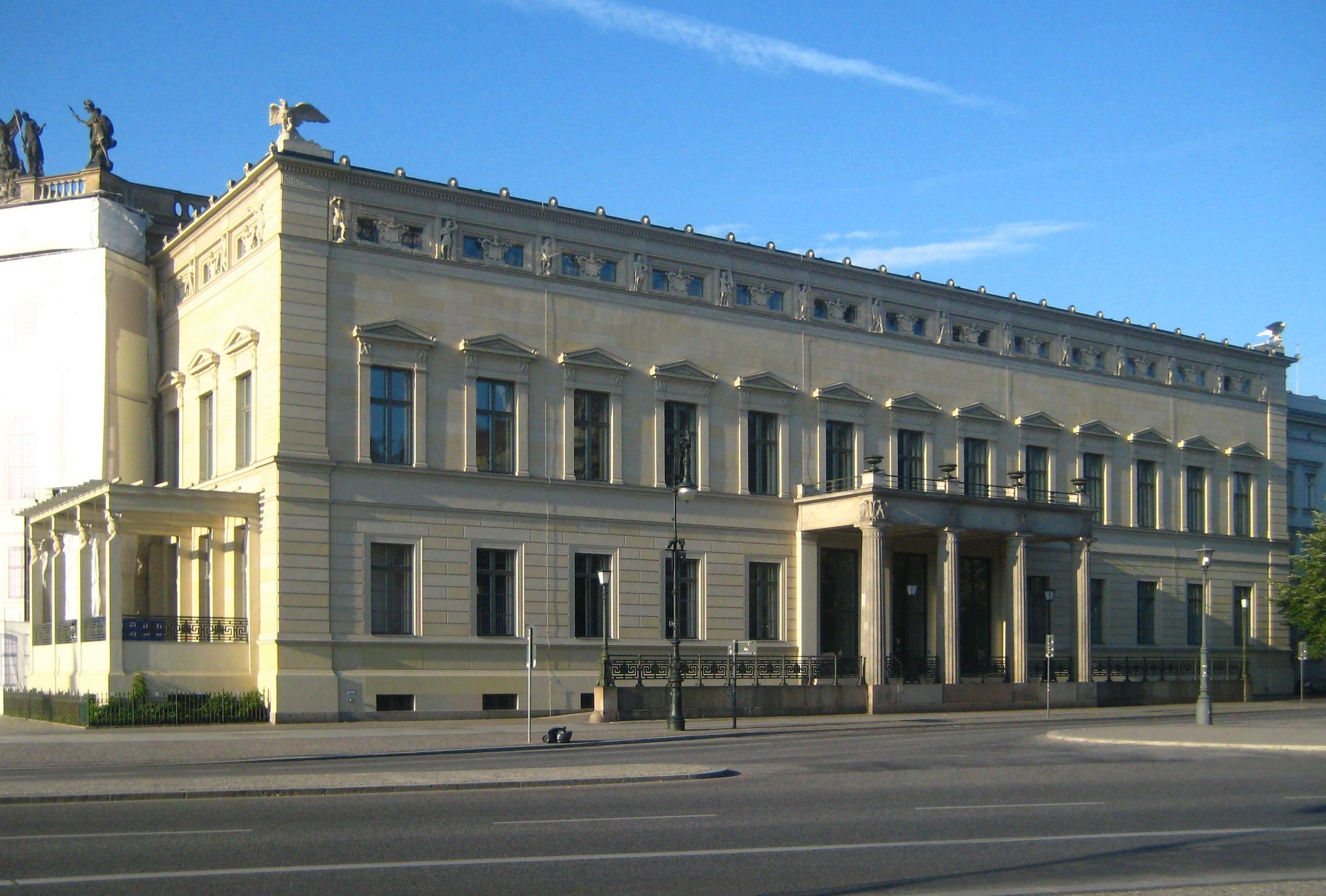 The Alte Palais (Old City Palace), Unter den Linden, in Berlin-Mitte, also known als Emporer William's Palace. It was built between 1834 and 1837 to a design by Karl Ferdinand Langhans. The building has been designated as a historic landmark.